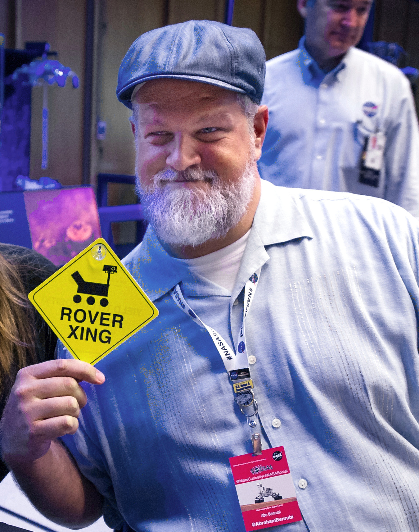 American actor Abraham Benrubi poses for a photograph during a NASA Social to preview the landing of the Mars Science Laboratory's (MSL) Curiosity rover held at the Jet Propulsion Laboratory on Friday, Aug. 3, 2012 in Pasadena, Calif. The MSL Rover named Curiosity was designed to assess whether Mars ever had an environment able to support small life forms called microbes. Curiosity is due to land on Mars at 10:31 p.m. PDT on Aug. 5, 2012 (1:31 a.m. EDT on Aug. 6, 2012). Photo Credit: (NASA/Bill Ingalls)